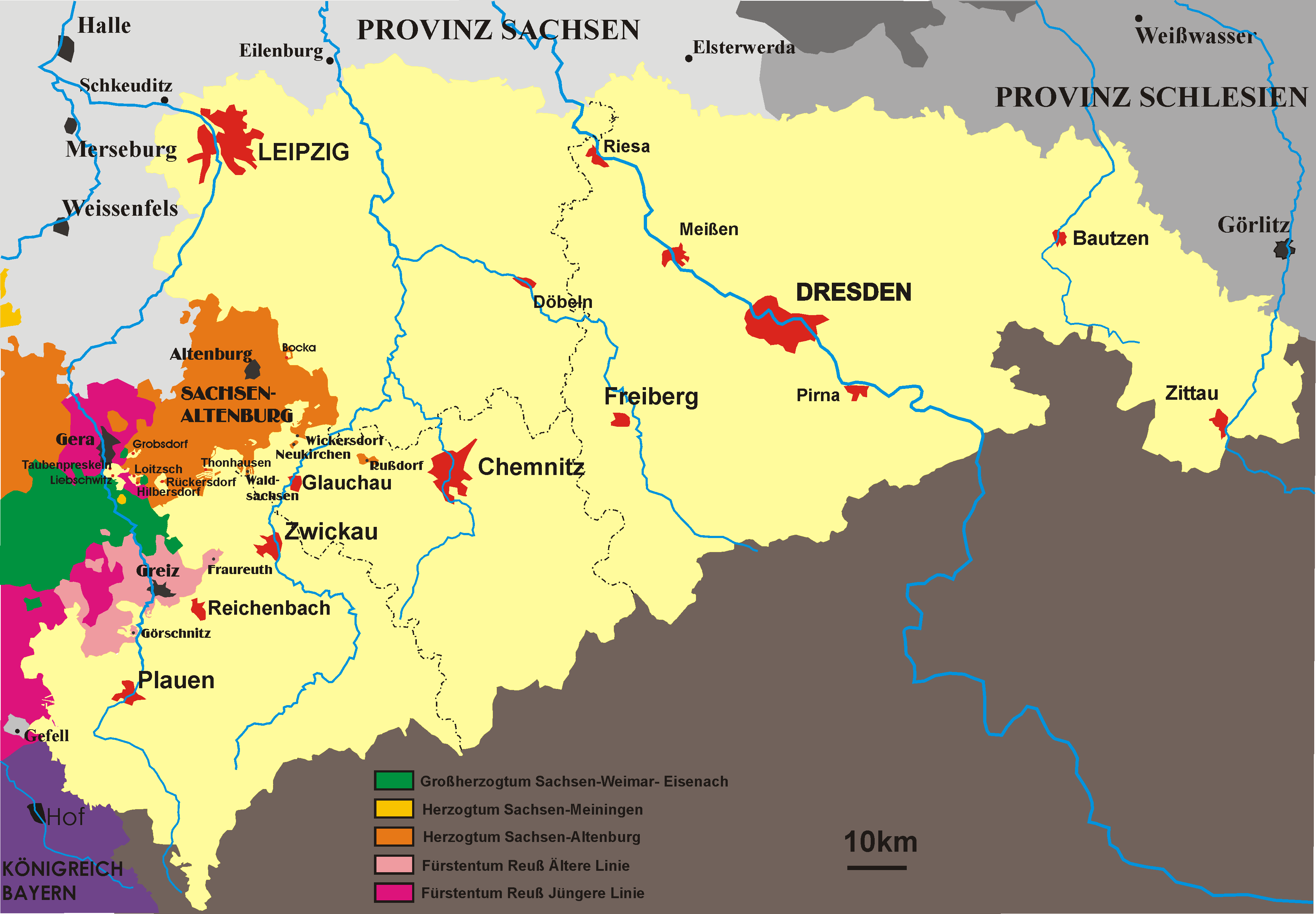 Map of kingdom Saxony in the 19th century 1815-1918 self made by störfix